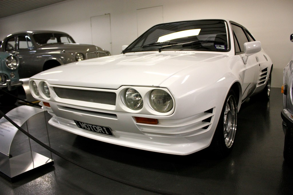 1988 Giocattolo on display at the National Motor Museum Birdwood (SA) .